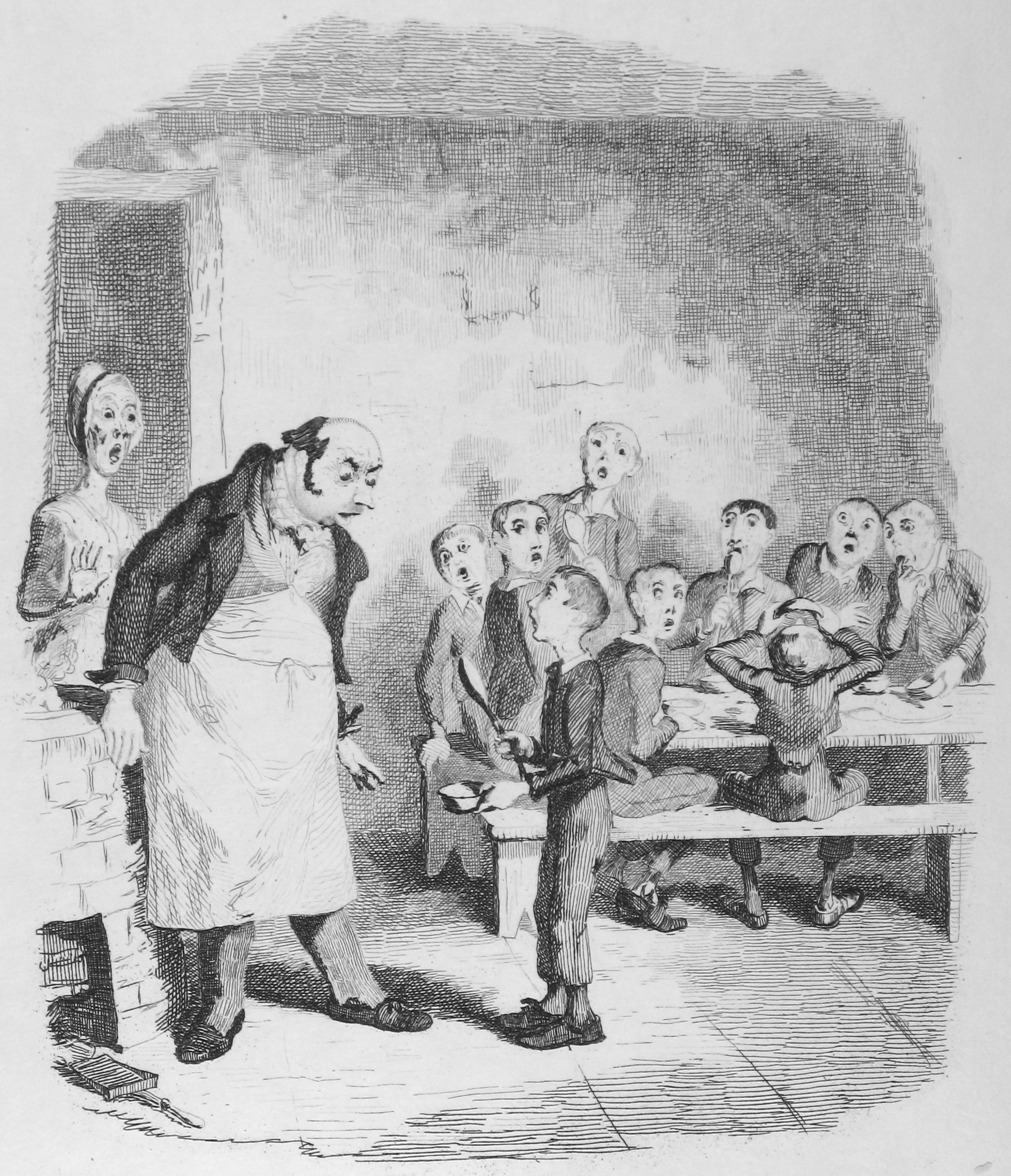 A photograph of an engraving in The Writings of Charles Dickens volume 4, Oliver Twist, titled "Oliver asking for more". This image has been rotated, cropped, had its levels adjusted, and has been sharpened from the original.